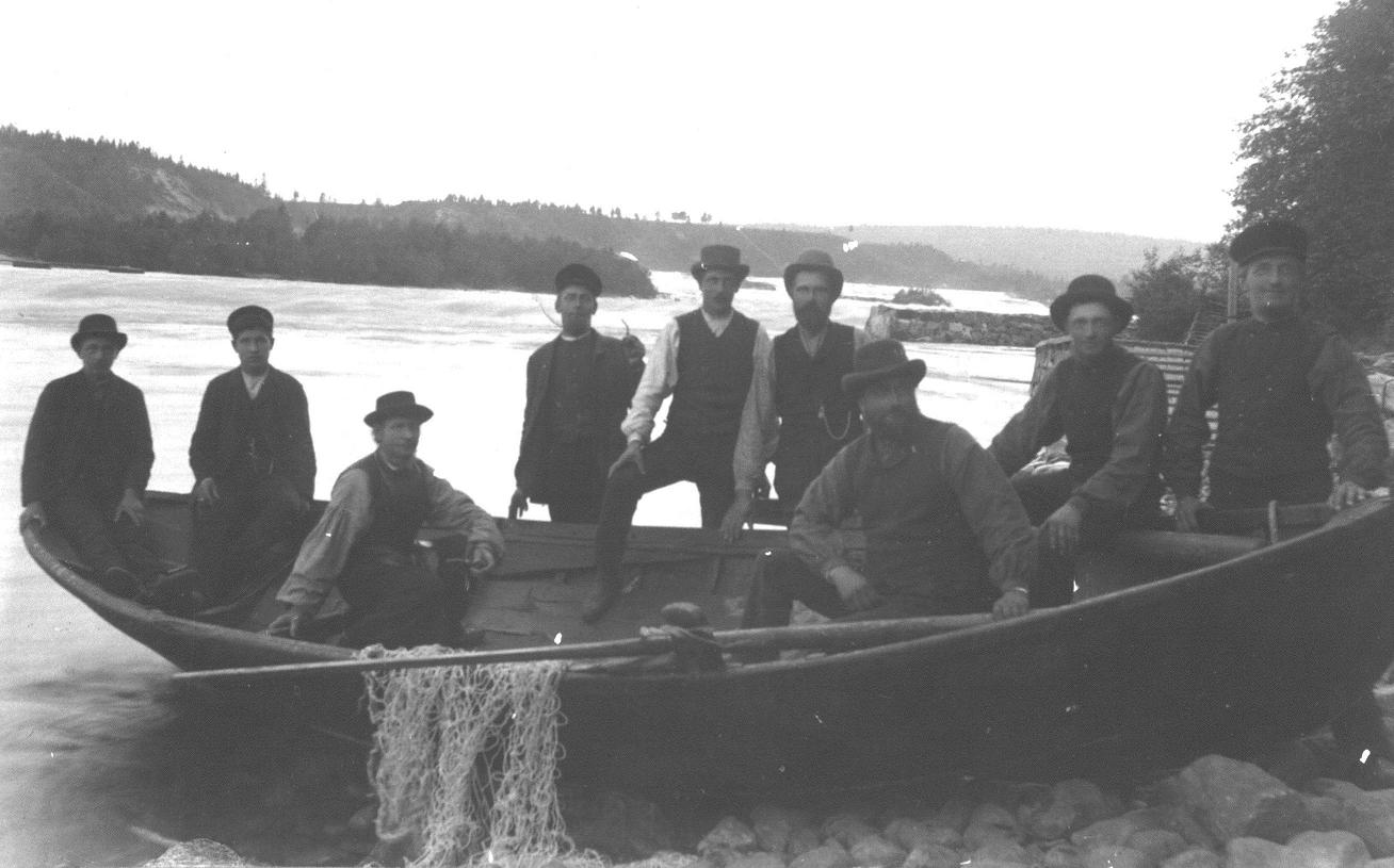 Fishing near Baggböle in North Sweden in the late 1800s